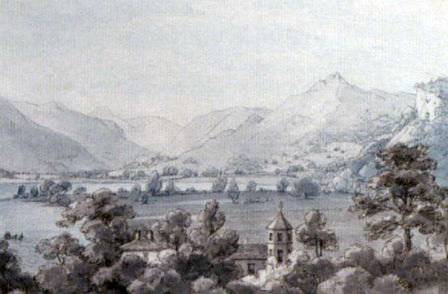 Painting by Thomas Sunderland called "Glenridding on Ullswater" circa 1820